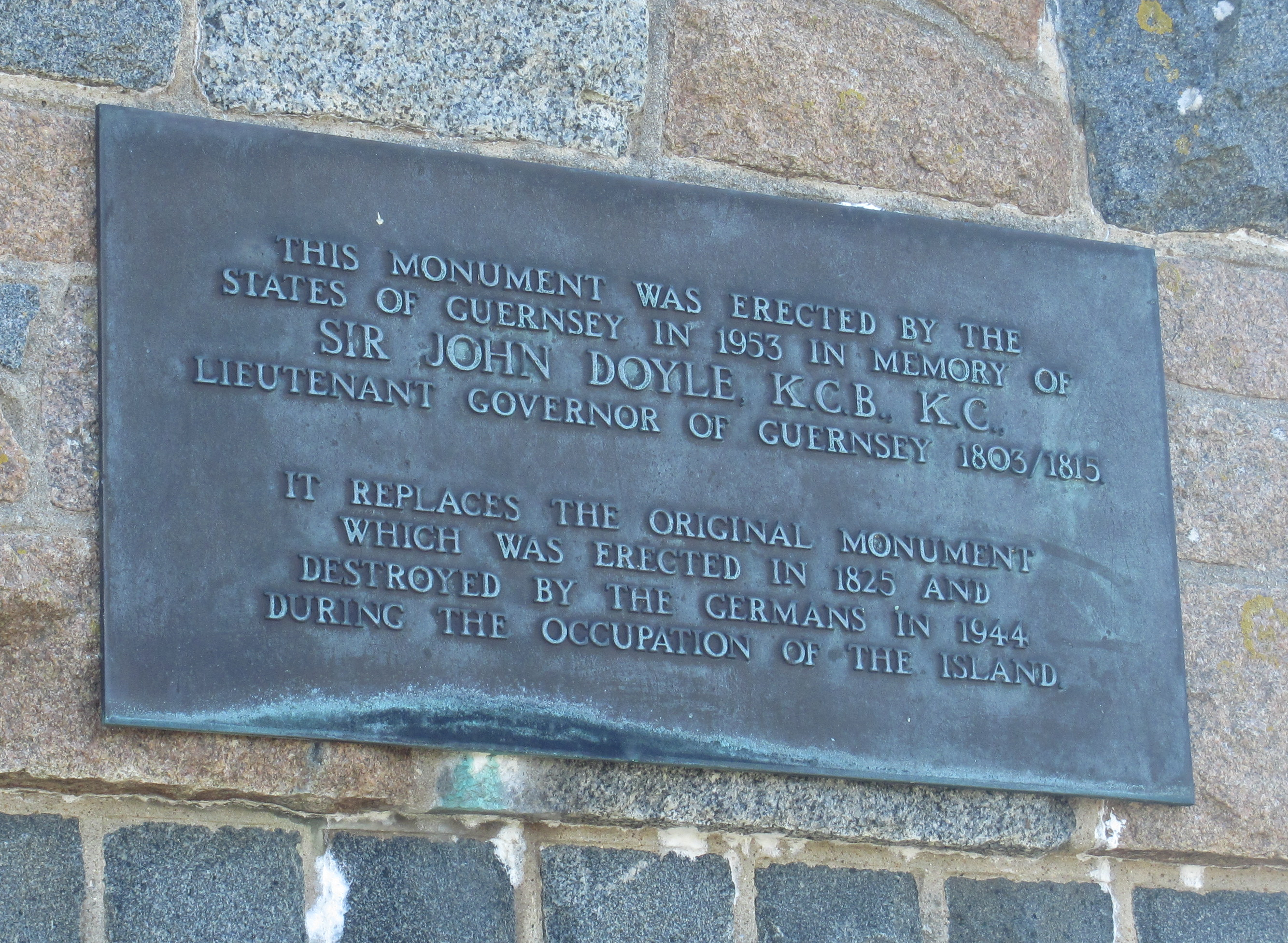 Guernsey, July 2011: Plaque at the Doyle Monument in Saint Martin parish